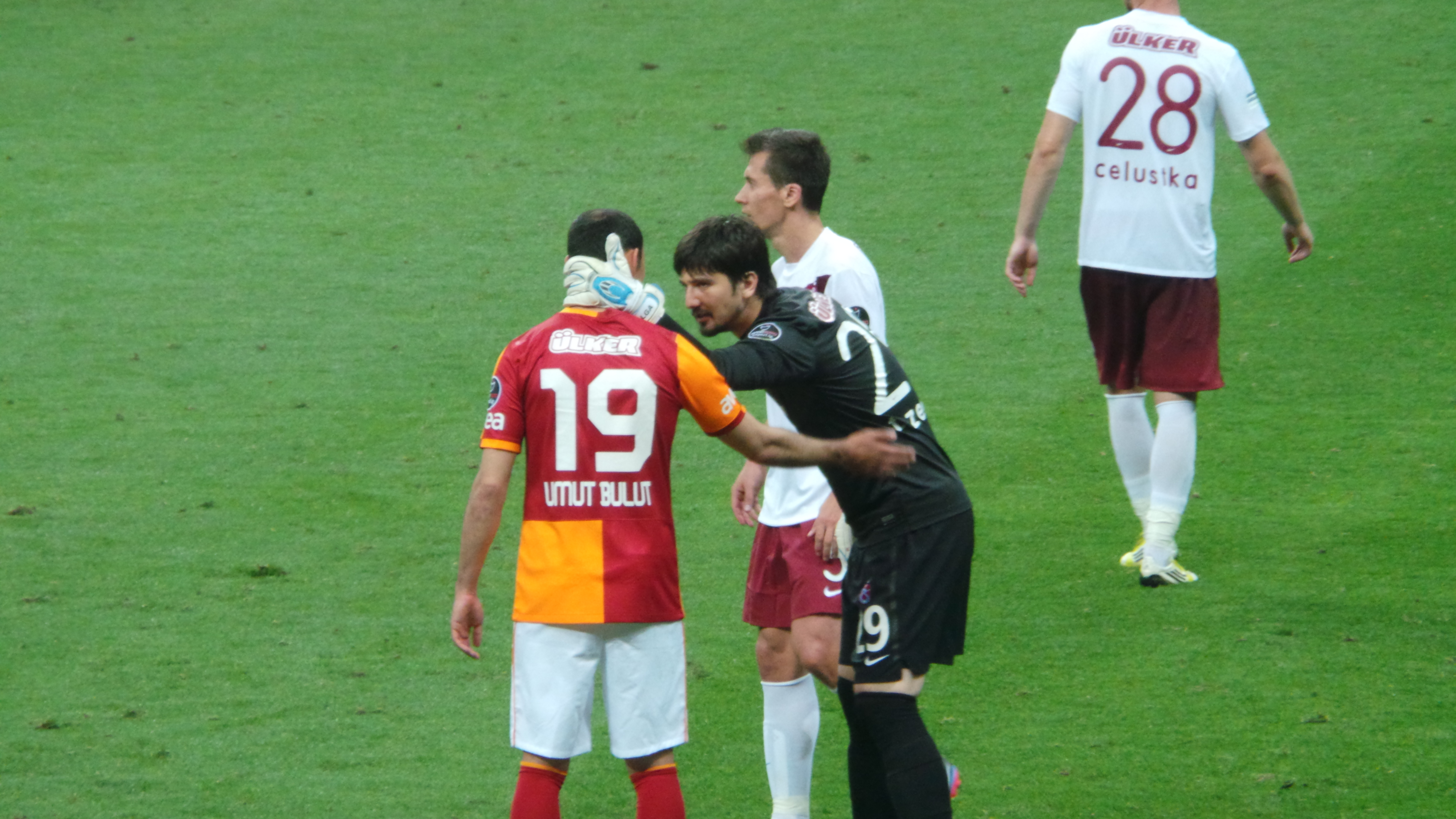 Galatasaray Trabzonspor maçından bir kare Umut ve Tolga